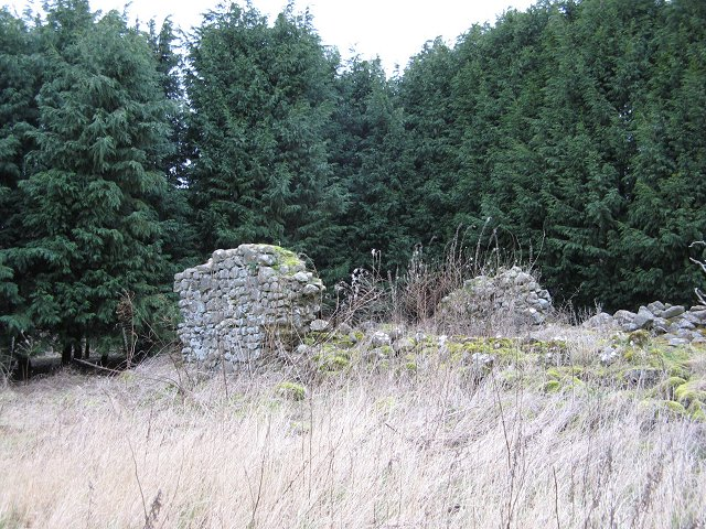 Bastle, Printonan Blown up by Cromwell in 1650 or 1651 this was a fortified tower. Belonged to the Trotter family, a branch of which still farm Printonan. The ruin is on the edge of the wood, not in it as implied by the map. Thank you to George Trotter of Western Australia who sent me the information and inspired me go and have a look.